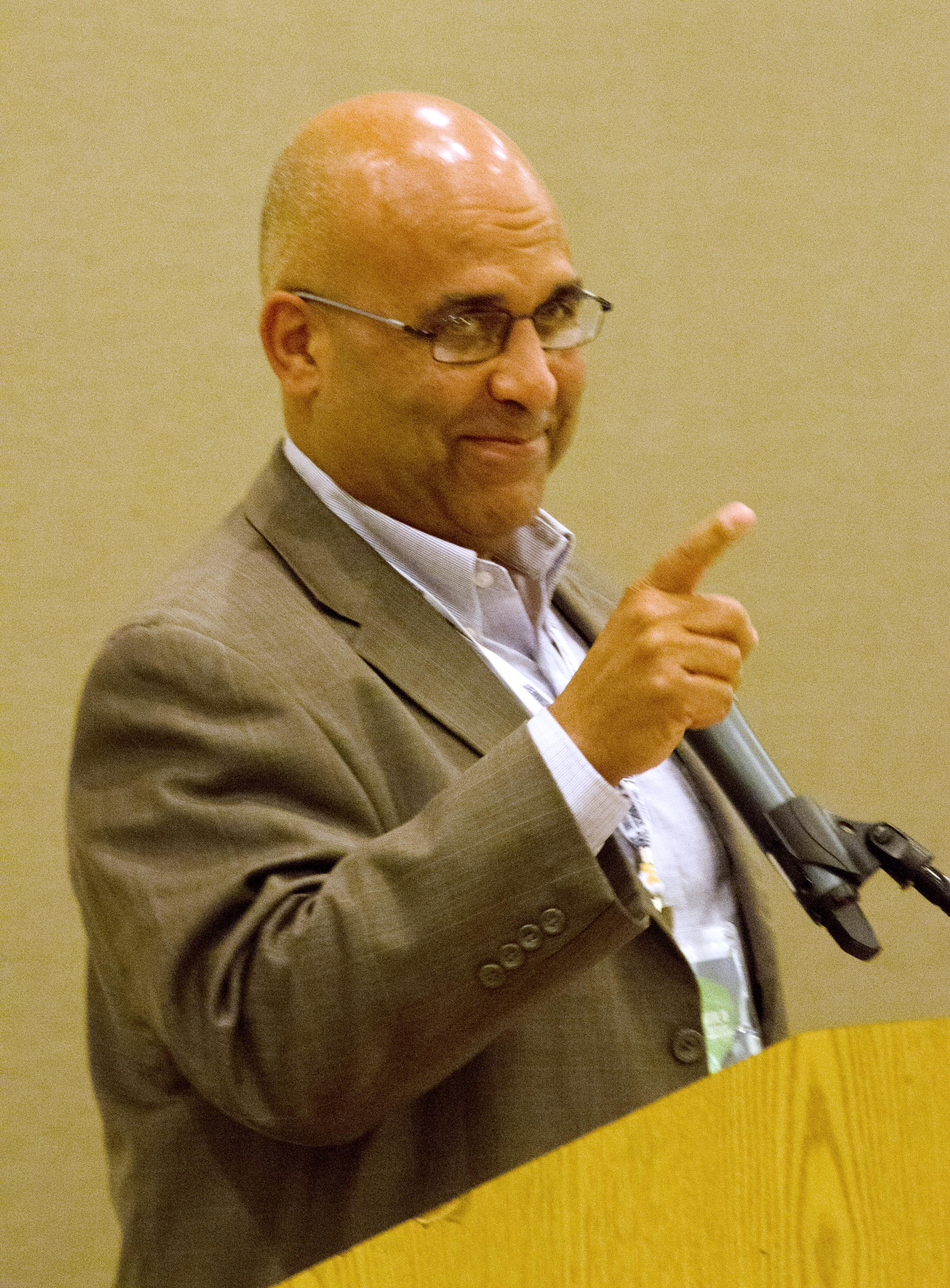 Michel Gelobter, Founder and Chairman of Cooler, Inc.